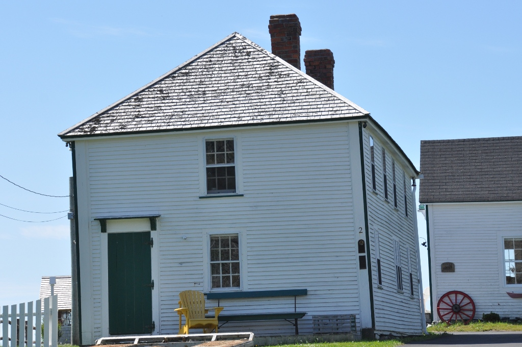 Davis House, Freshwater, Newfoundland.